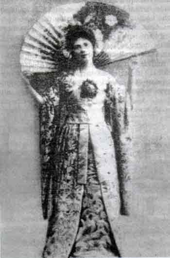 Jadviga Lubańska, wife of Eustacjusz Lubański